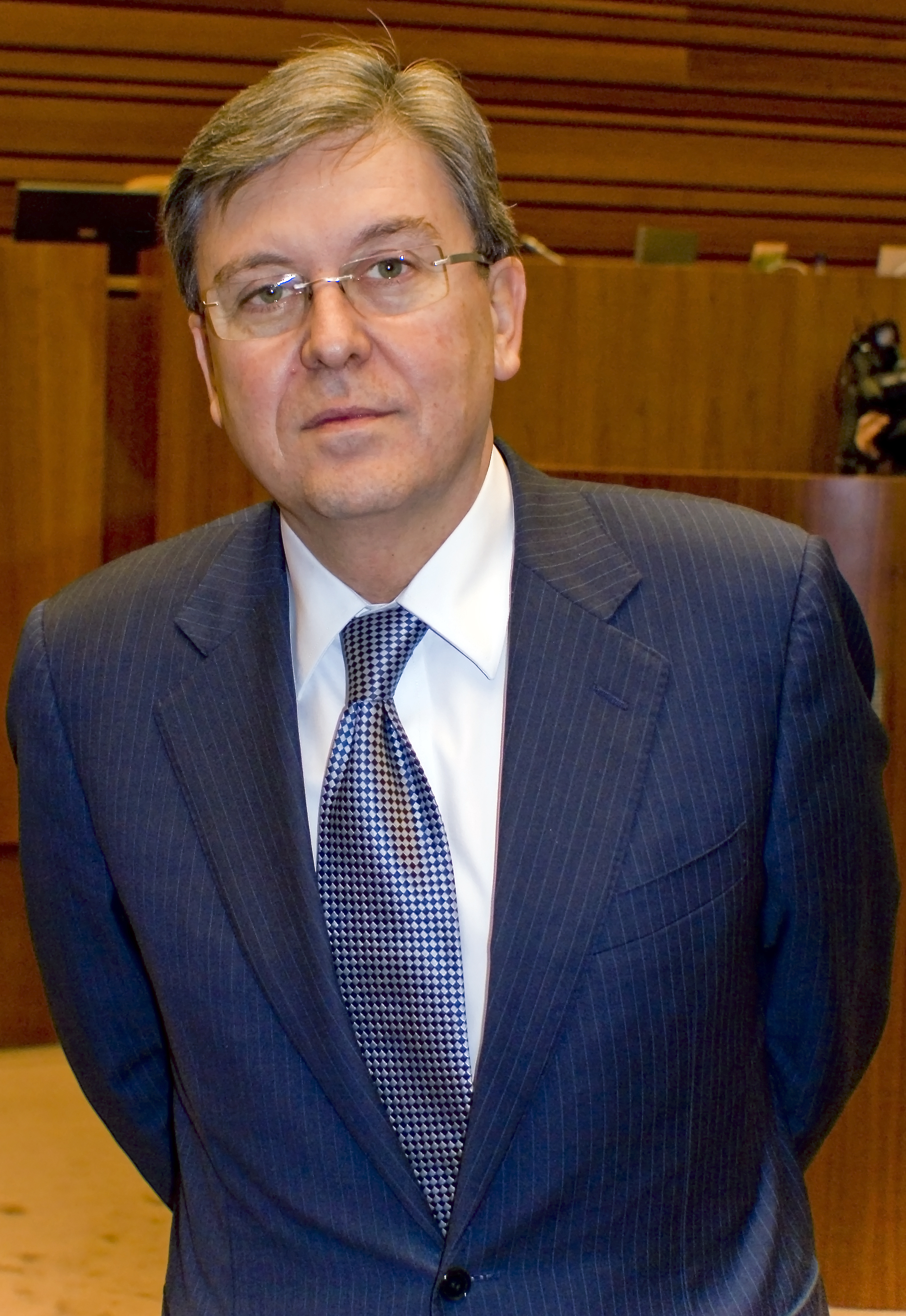 José Manuel Fernández Santiago, Spanish politician andpresident of the Cortes of Castile and León.